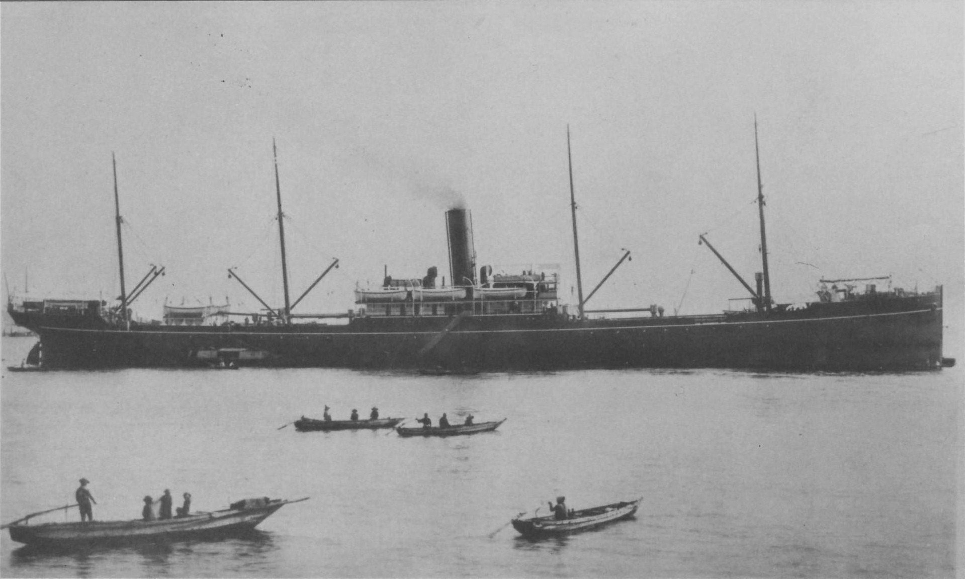 NYK Line "Hitachi Maru"(1898).